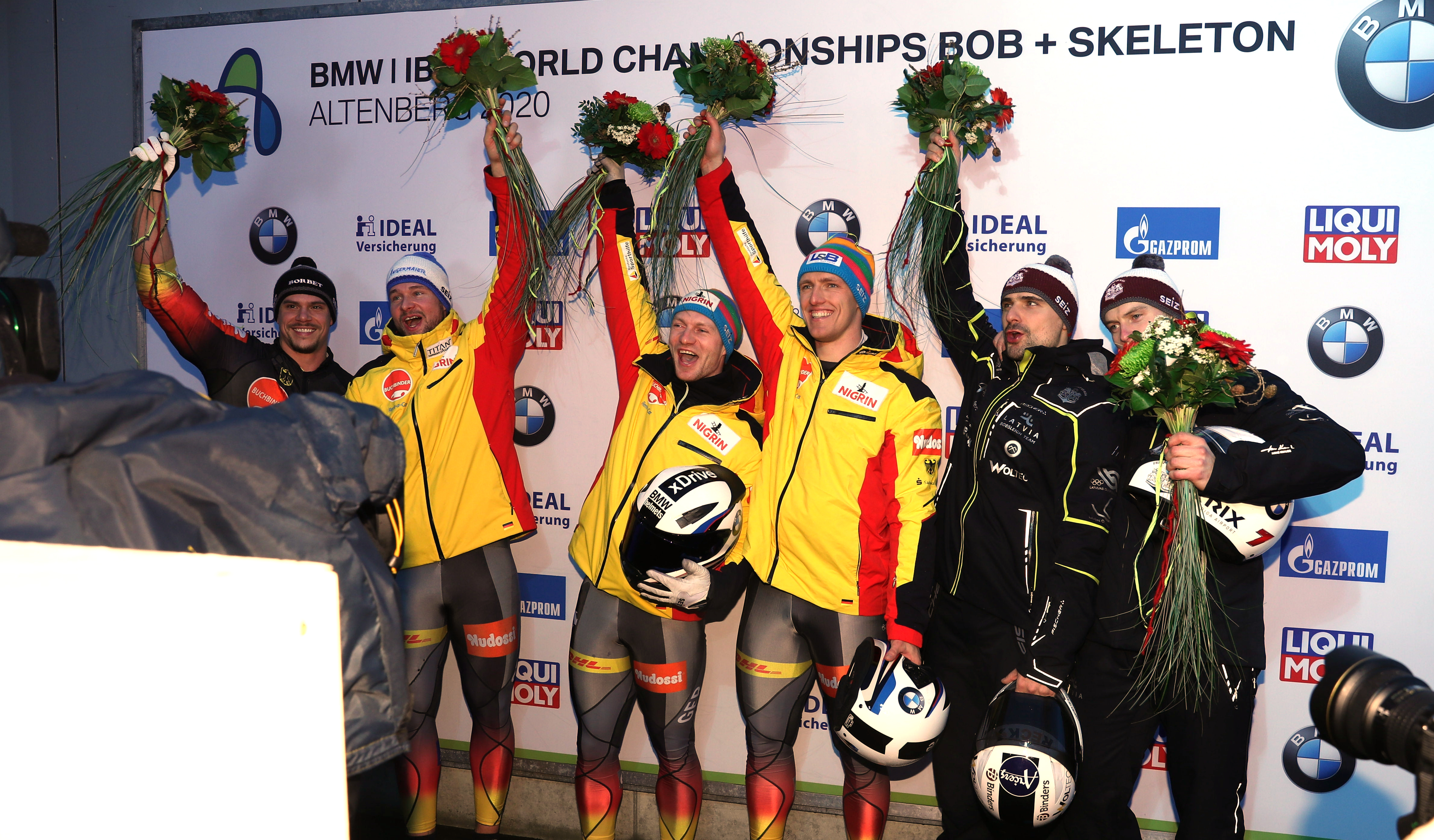 Flower Ceremony at the 2-man bobsleigh at the Bobsleigh and Skeleton World Championships 2020 in Altenberg